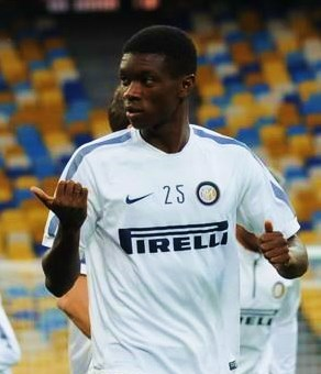 Ibrahima Mbaye